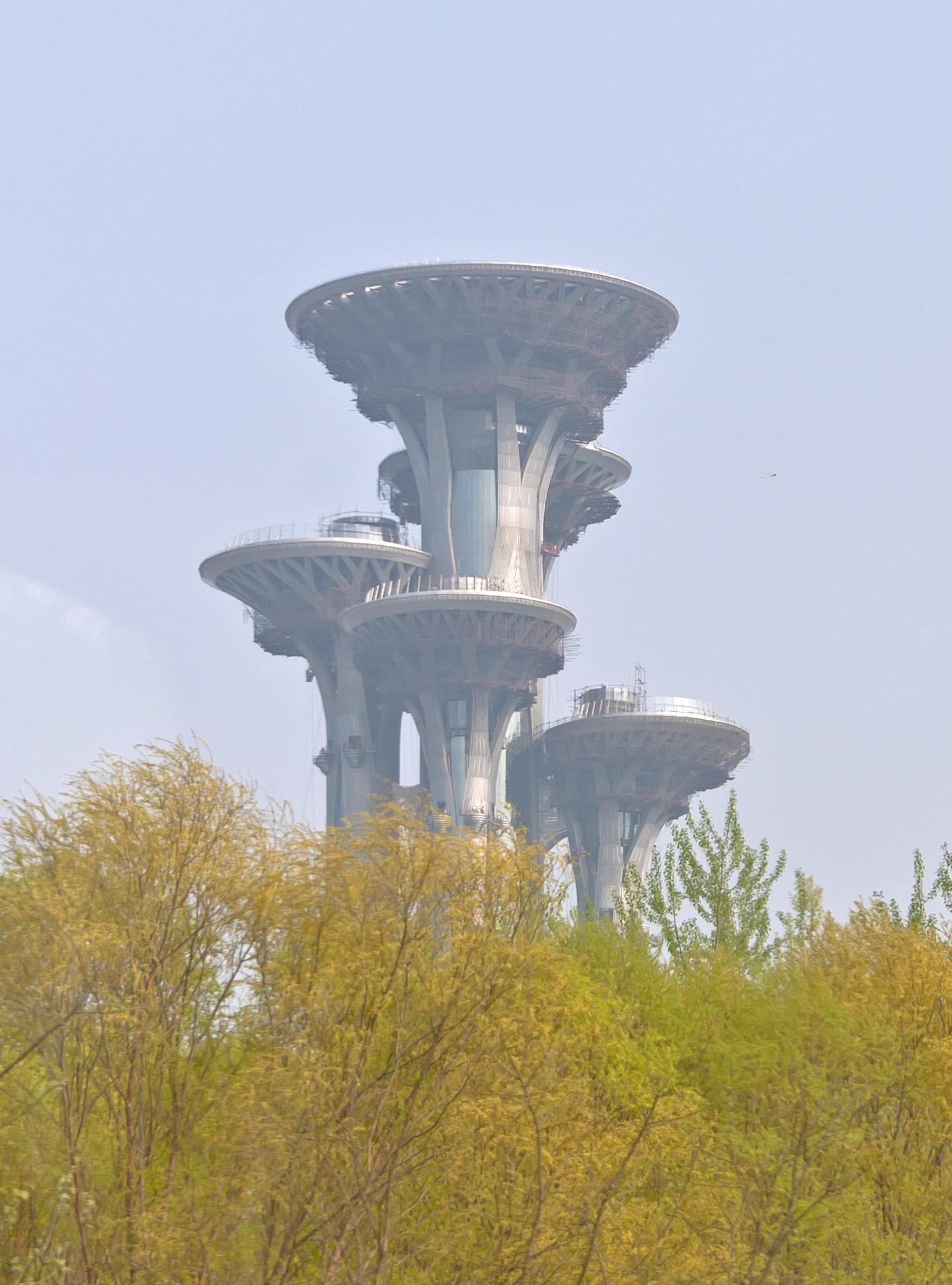 Olympic Park Observation Tower, designed by Cui Kai, Li Cundong and Zhao Wenbin, over trees in Olympic Green, Beijing.